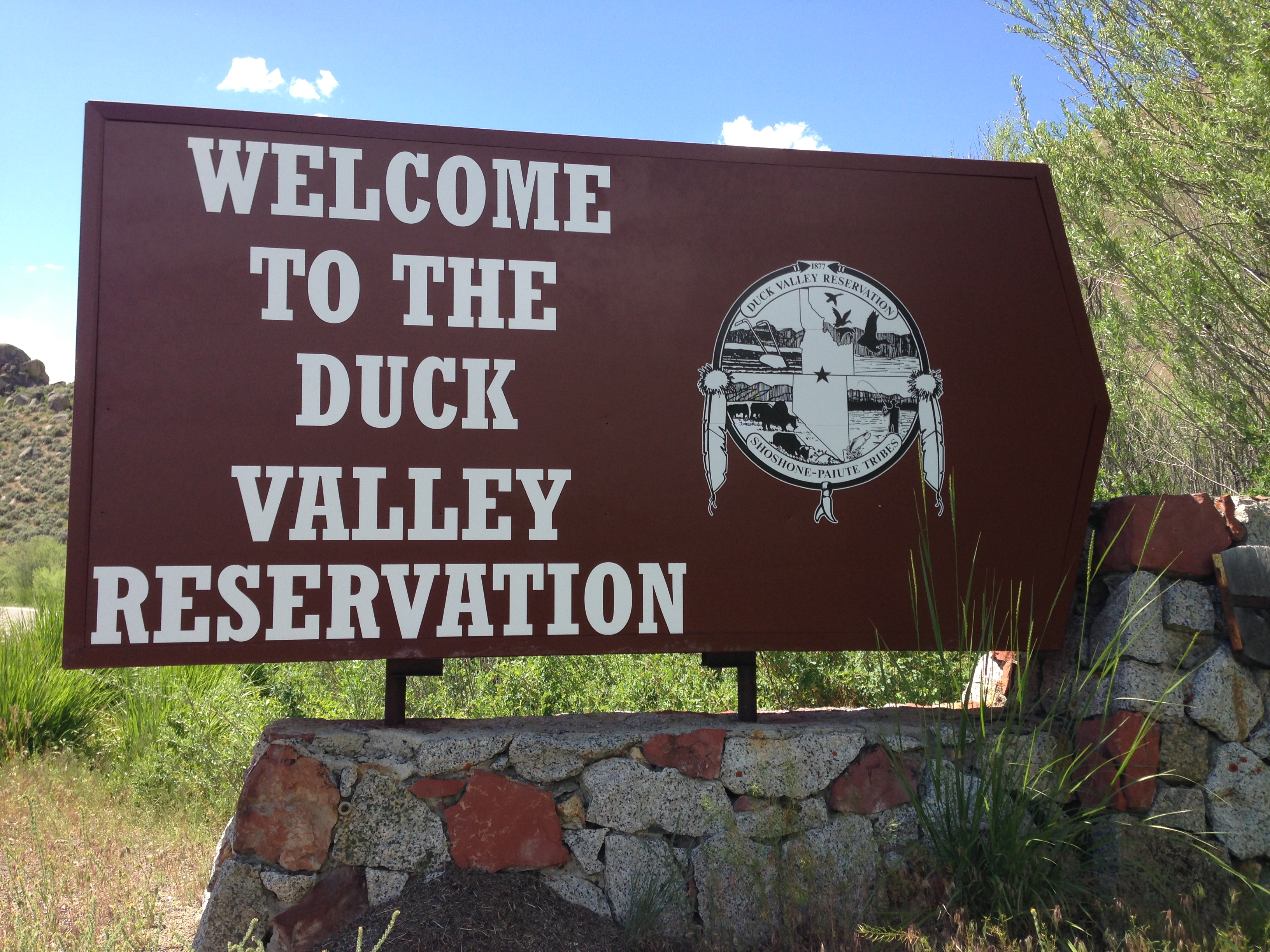 Entrance sign to Duck Valley Reservation along Nevada State Route 225 near Mountain City, Nevada